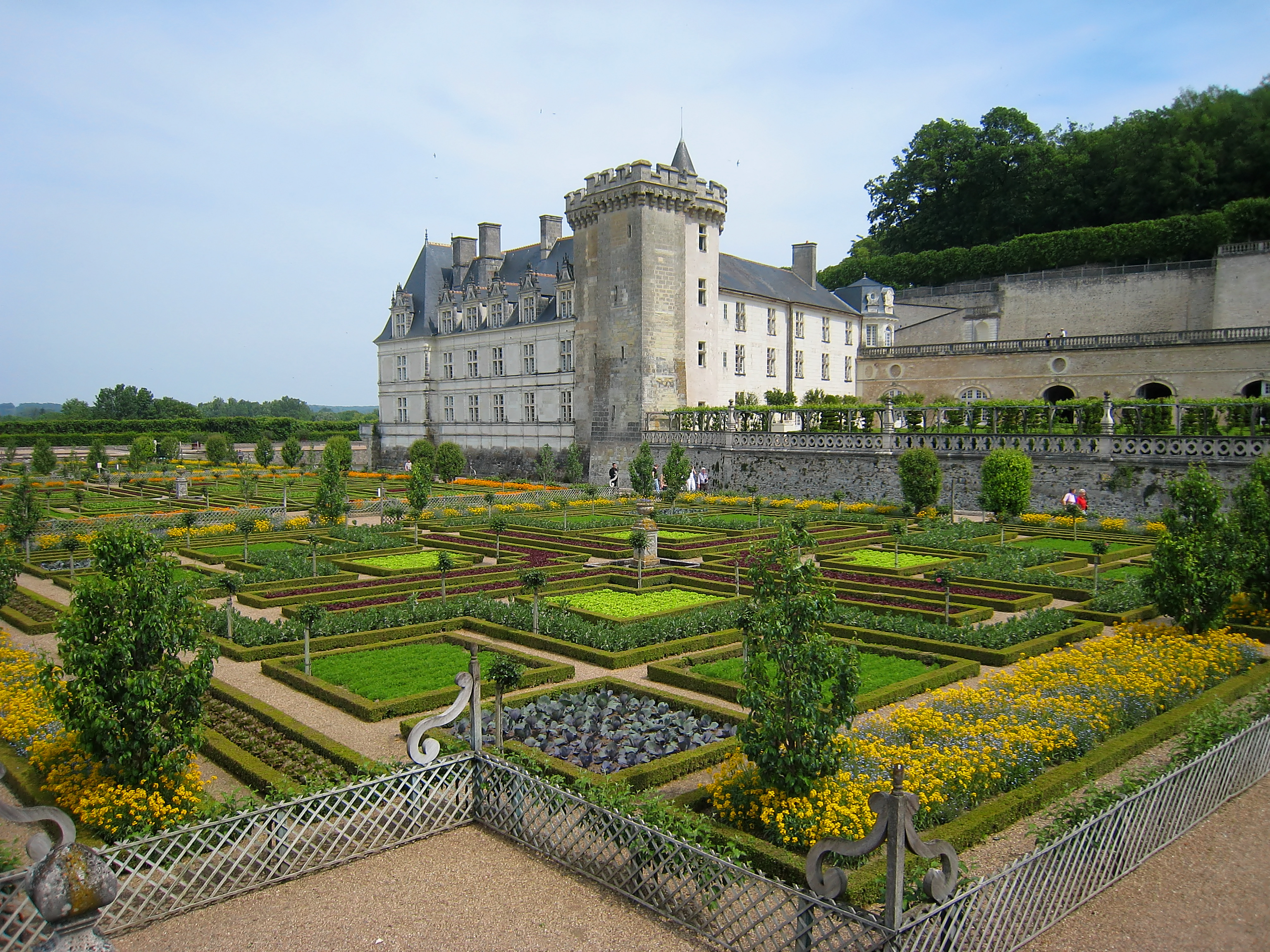 Chateau Villandry, potager